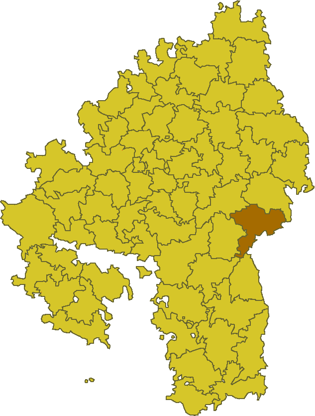 Map of administrative subdivisions (Oberämter) in Württemberg as of 1835, Oberamt Ulm marked in brown